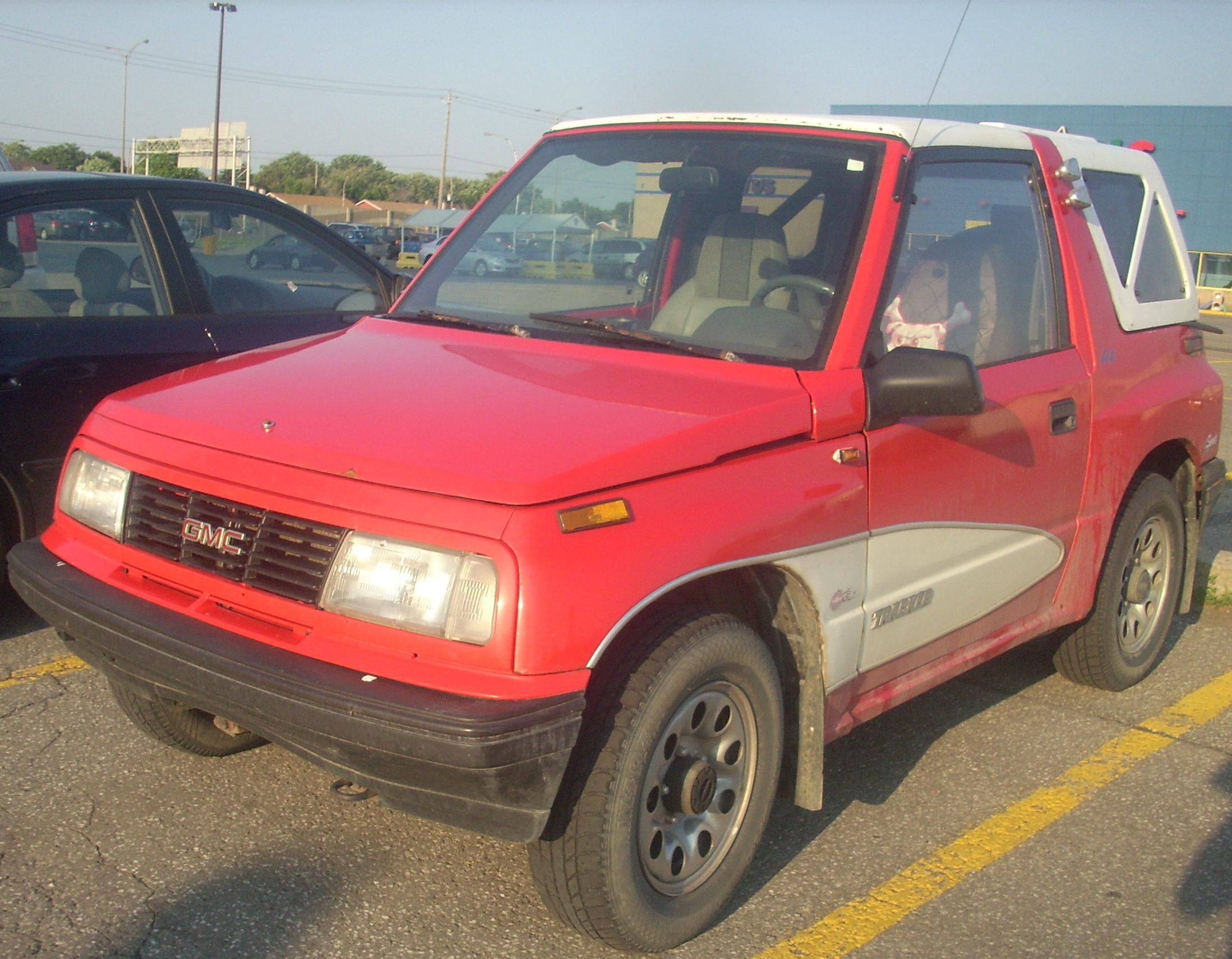 1989-1991 GMC Tracker photographed in Montreal, Quebec, Canada.